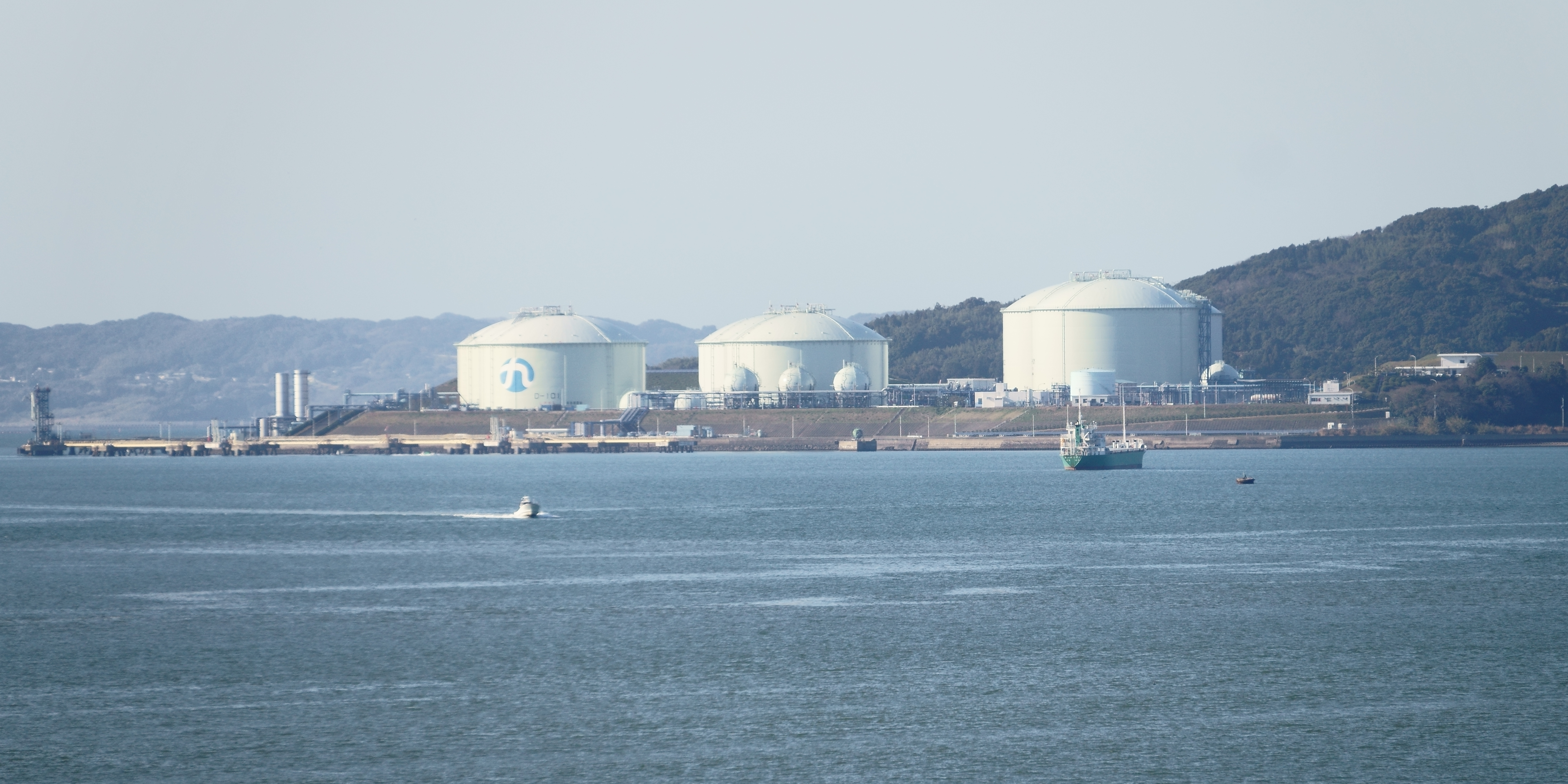 Fukushima Governmental petroleum gas storage terminal in Fukushimacho Shiohama-men, Matsuura city, Nagasaki prefecture. It taken from Imari Bay Bridge in Imari city, Saga prefecture.